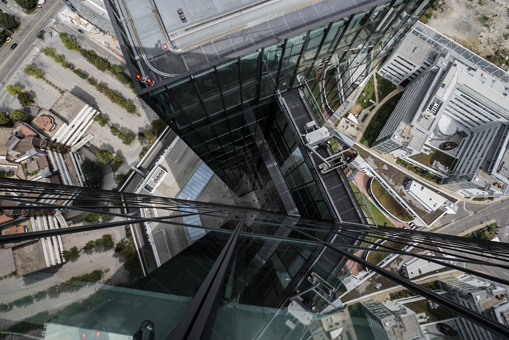 A lookdown shot from the roof of the bigger Twin Tower in Vienna, Austria. The smaller Twin Tower is pretty good visible.